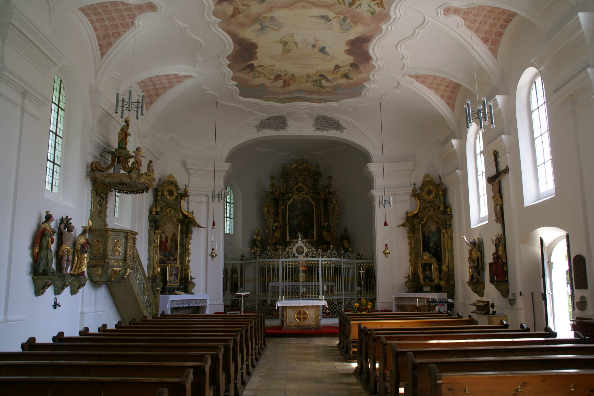 Interior of St. Anna Church at Annaberg in Sulzbach-Rosenberg (Germany)